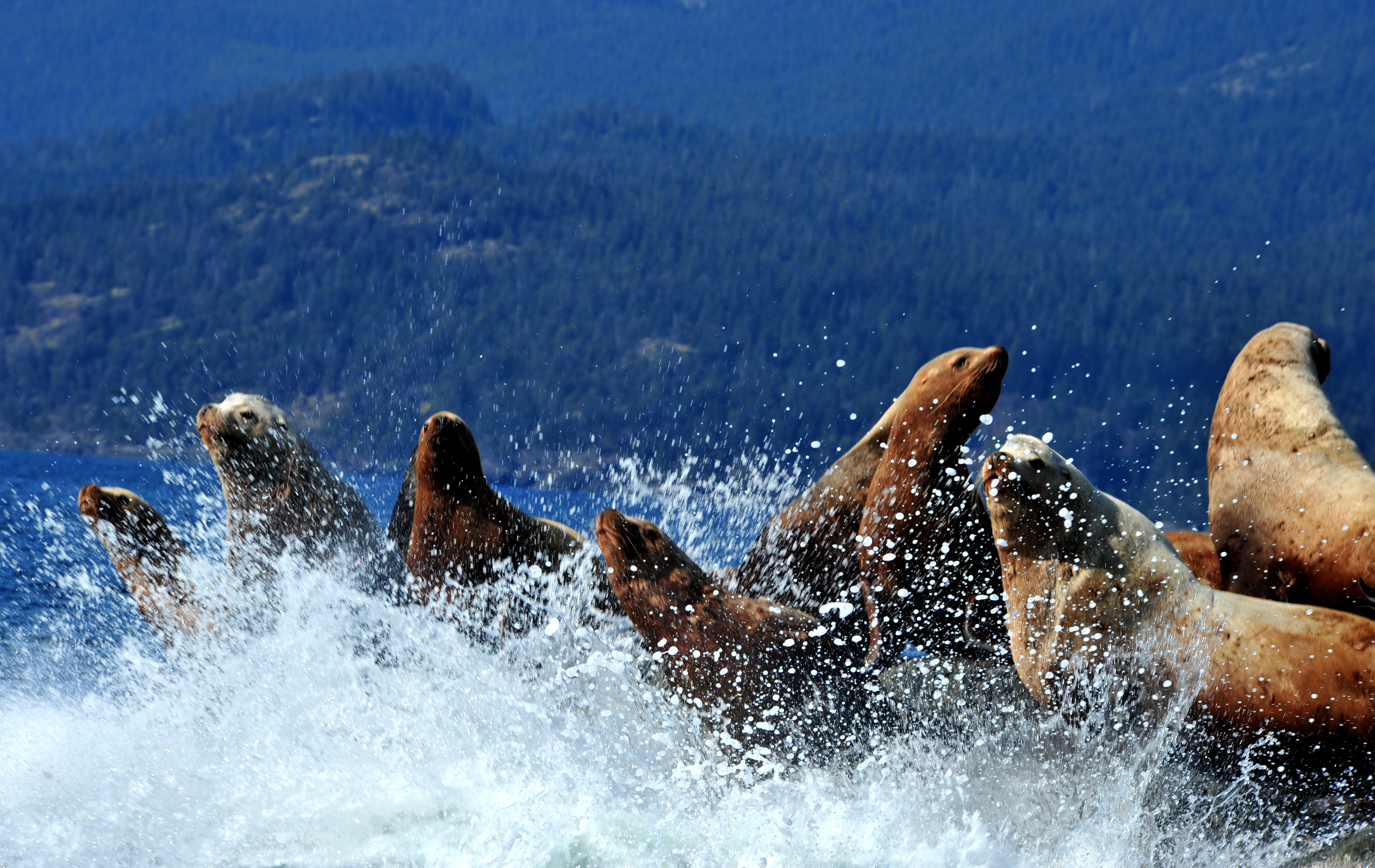 Stellars Sea Lions crowd a rock at Jedediah Marine Park. Sabine Channel. BC